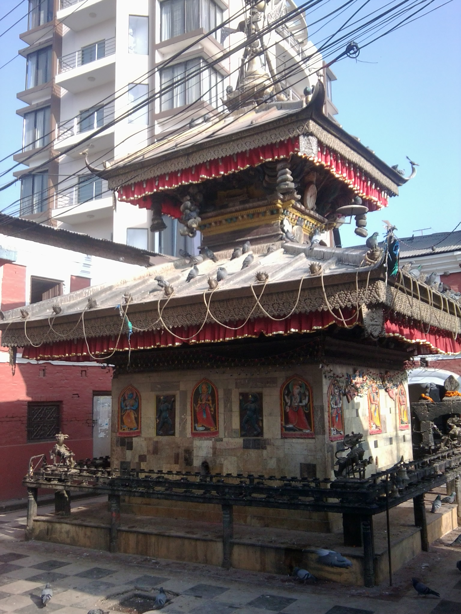 Back view of Bhatbhateni temple in Kathmandu.